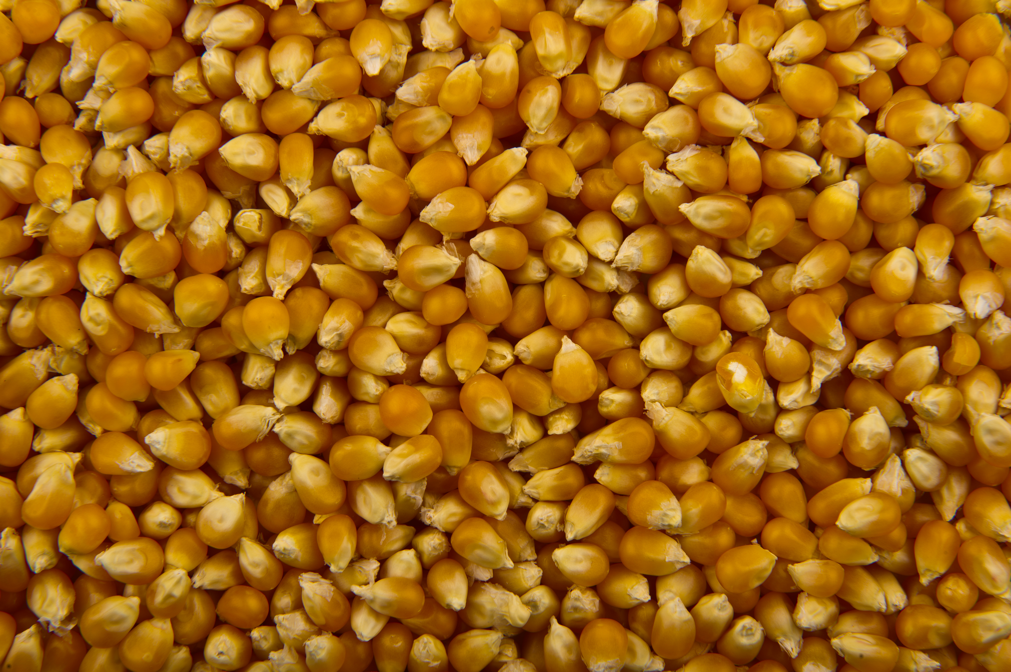 Unpopped corn kernels, prepared for popping. – Studio photo of Popcorn. Taken in 2011.